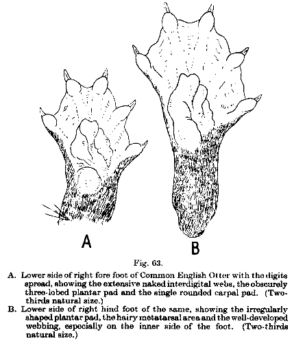 Feet of a European otter